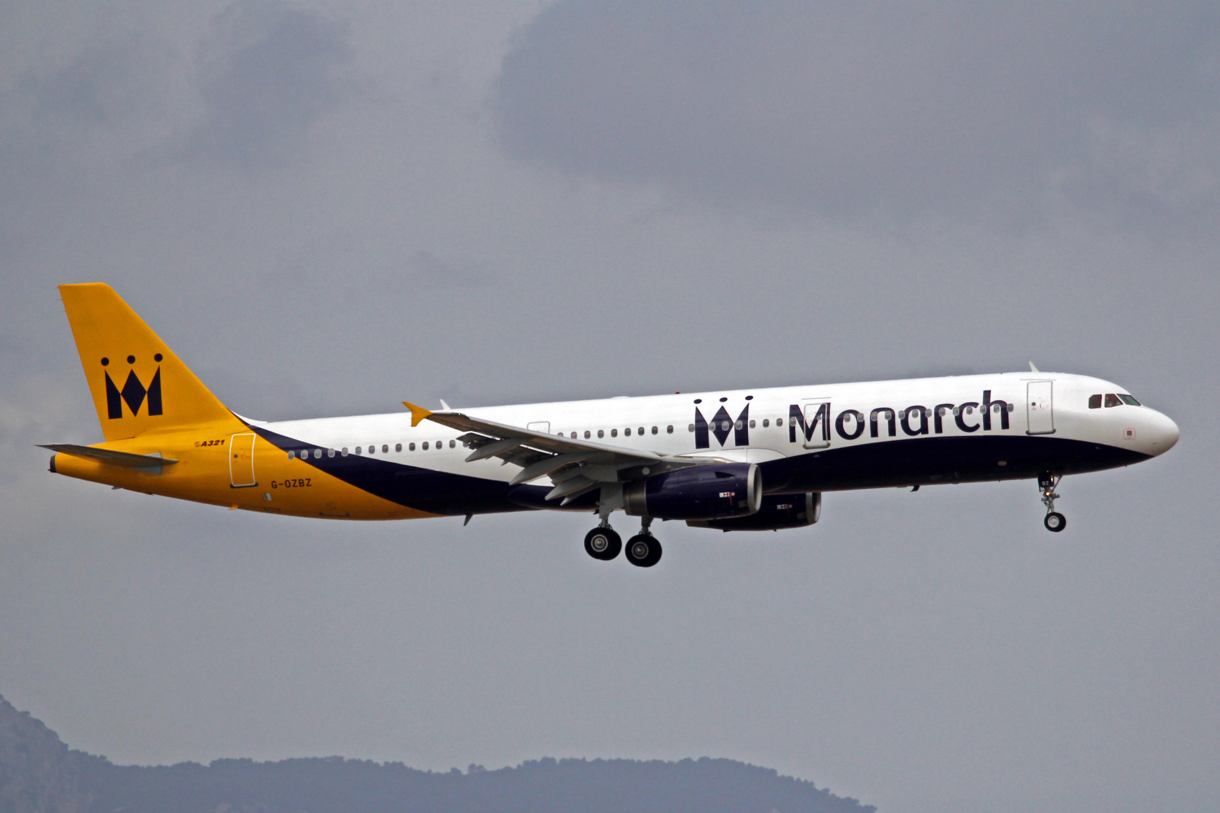 A picture of an airplane (name of it is on the file name).